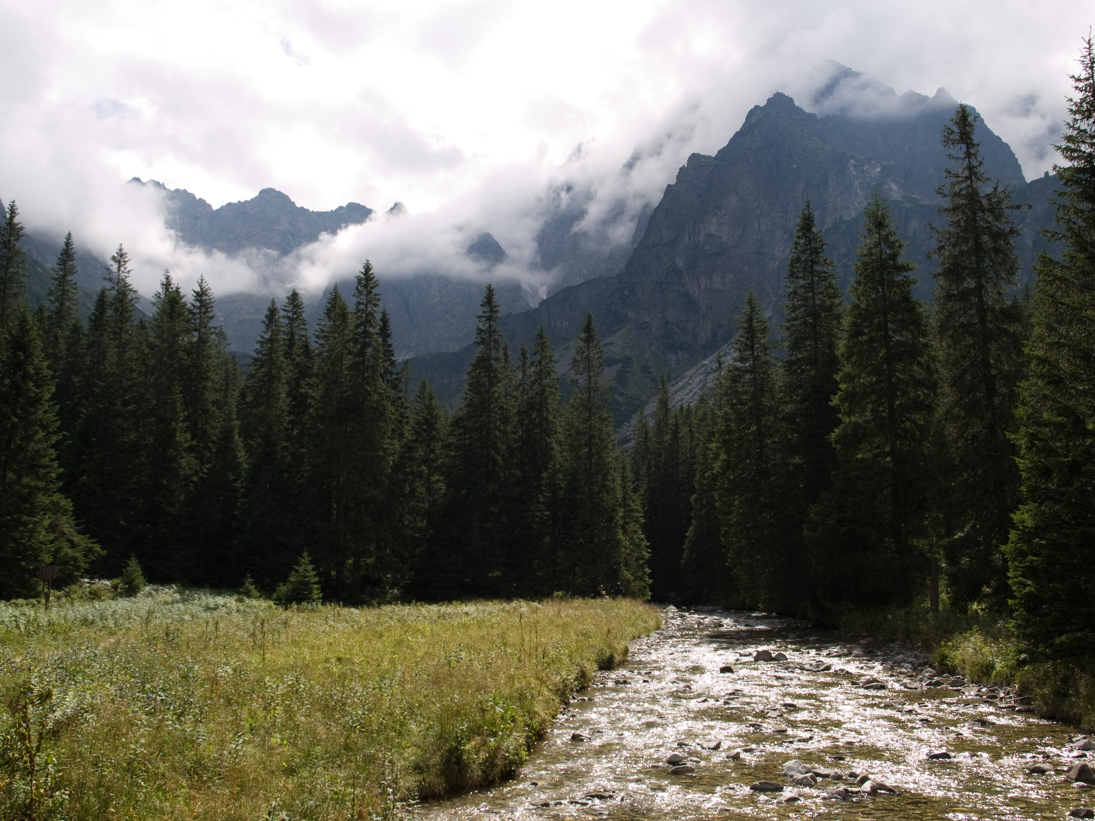 Poľana pod Vysokou in Bielovodská dolina